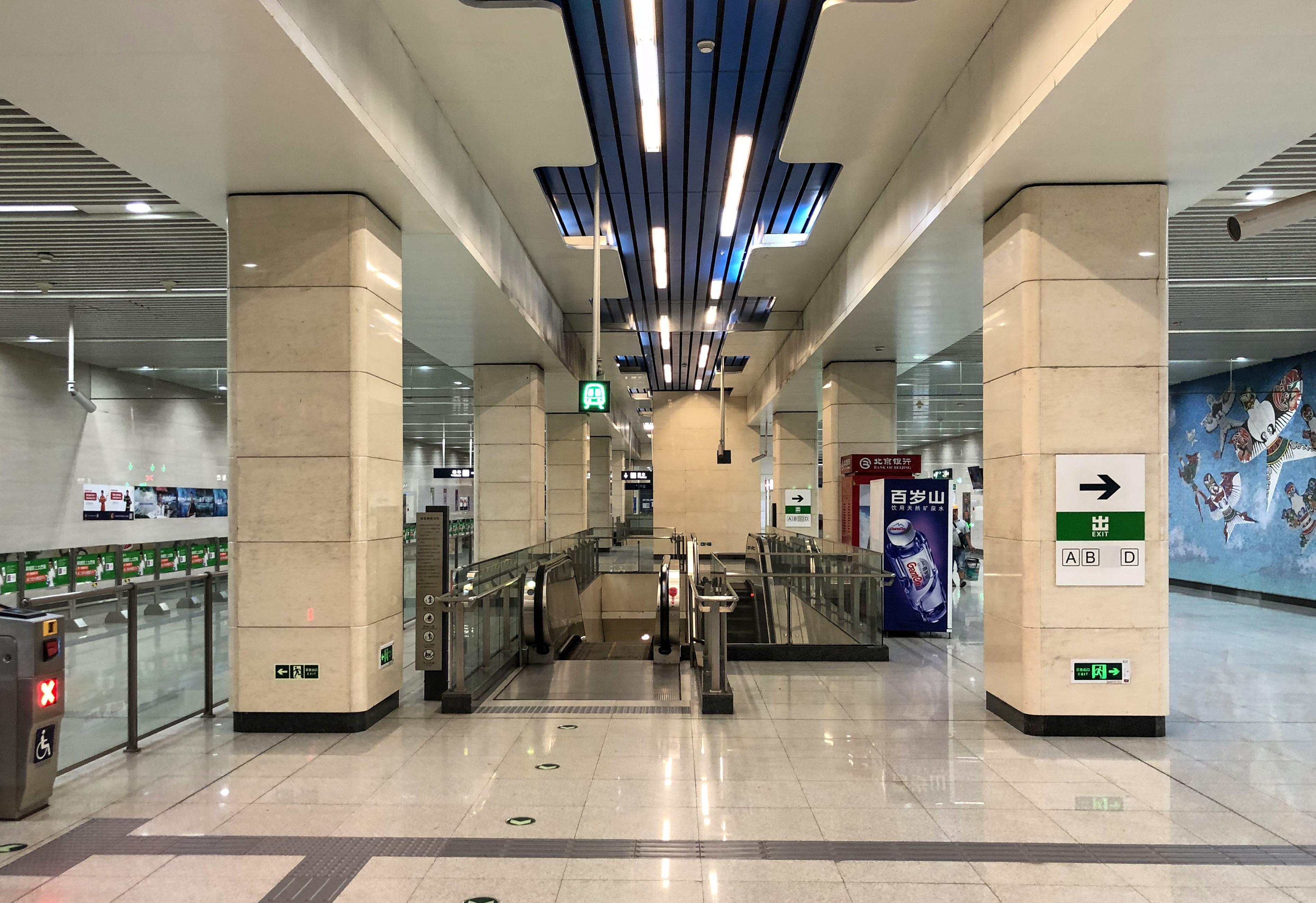 This station also has its mural on the south.